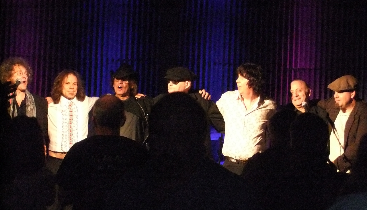 The Left Banke-1960s Baroque-Rock Band The Left Banke-big hits "Walk Away Renee" and "Pretty Ballerina"; featuring original members Tom Finn and George Cameron-performed at the Tupelo Music Hall in Londonderry, New Hampshire on July 6, 2012.